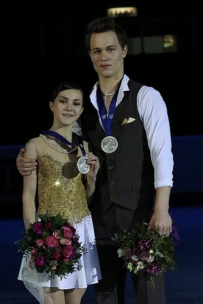 Apollinariia Panfilova and Dmitry Rylov at the 2019 Junior World Championships - Awarding ceremony